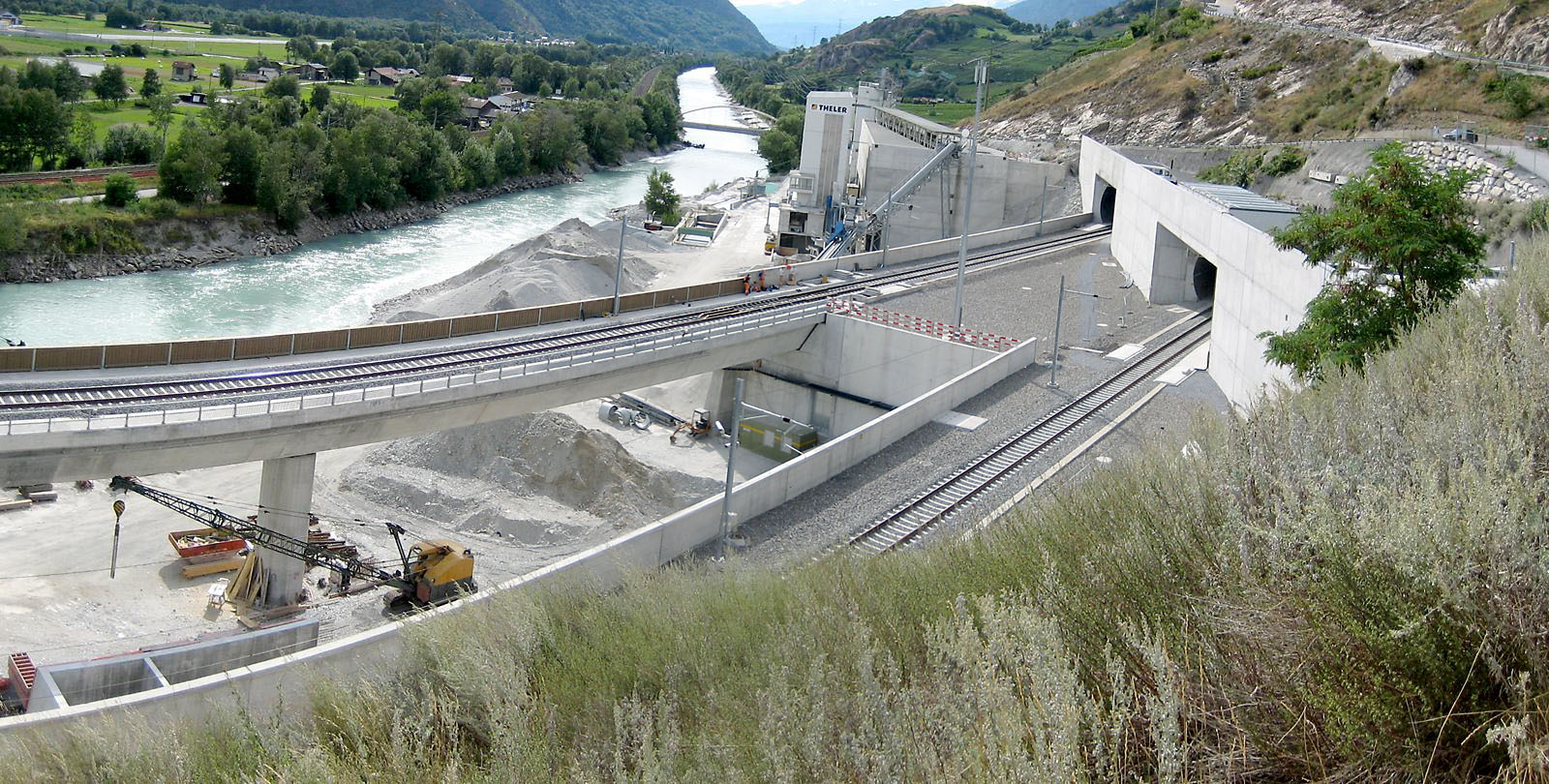 South portal of new Lötschberg Base Tunnel (LBT) and Rhône River east of Raron, Canton Valais; LBT is part of the Swiss Alptransit project